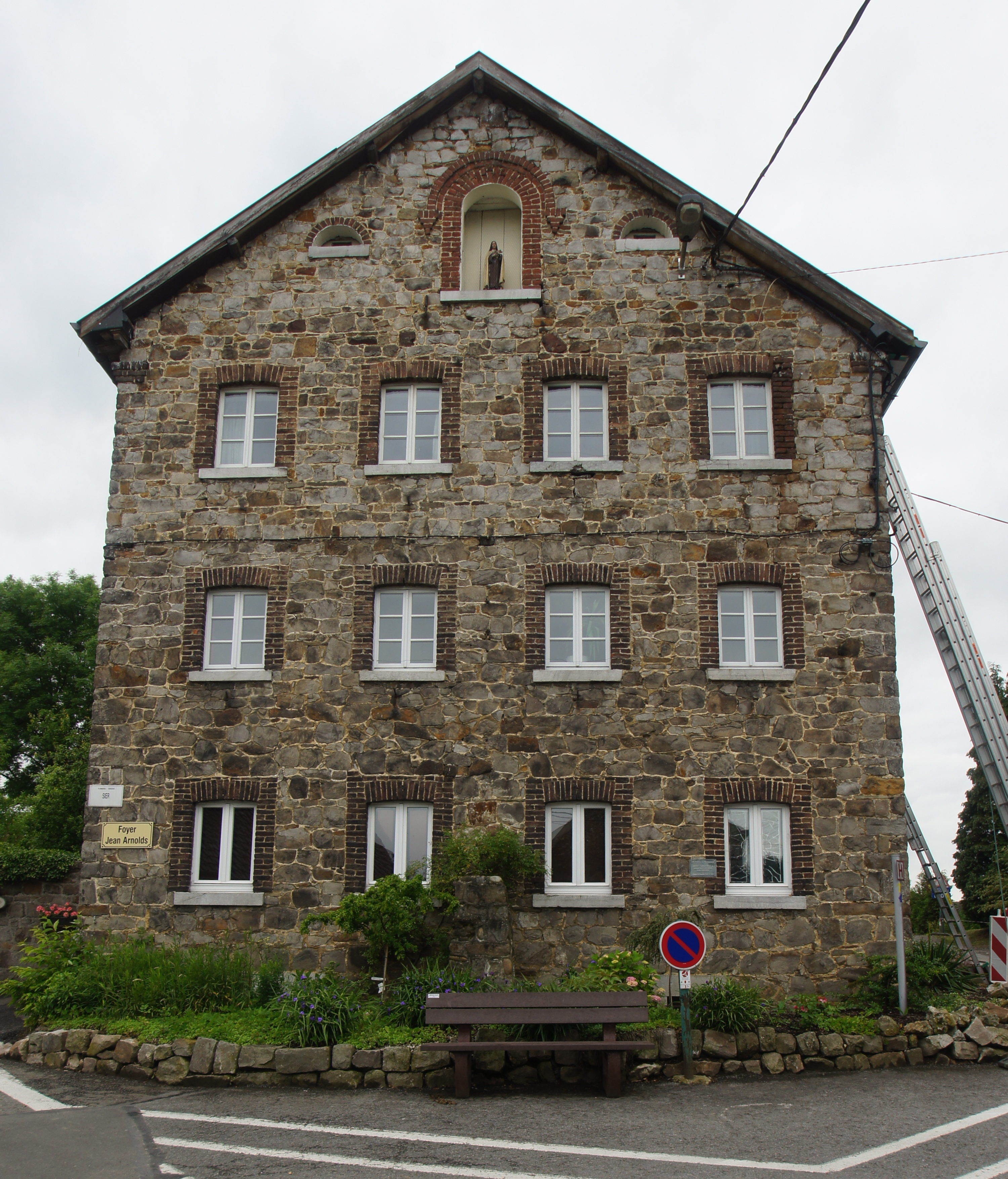 Moresnet (Moresnet-Chapelle), Belgium: Home Jan Arnolds